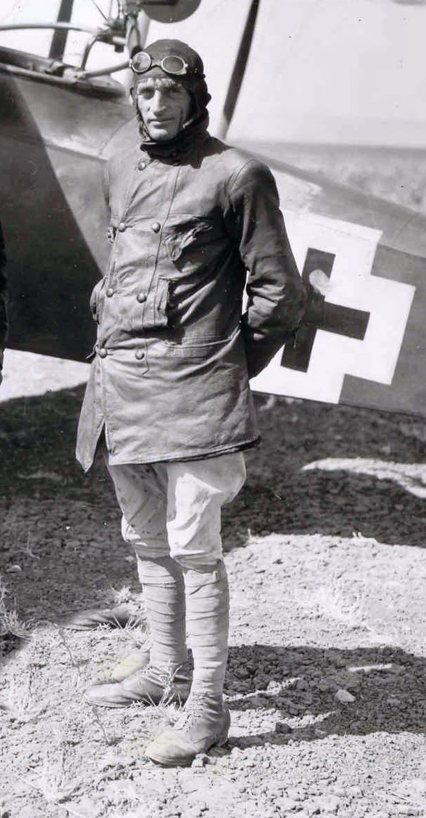 Franz Josef Walz in Jezreel Valley